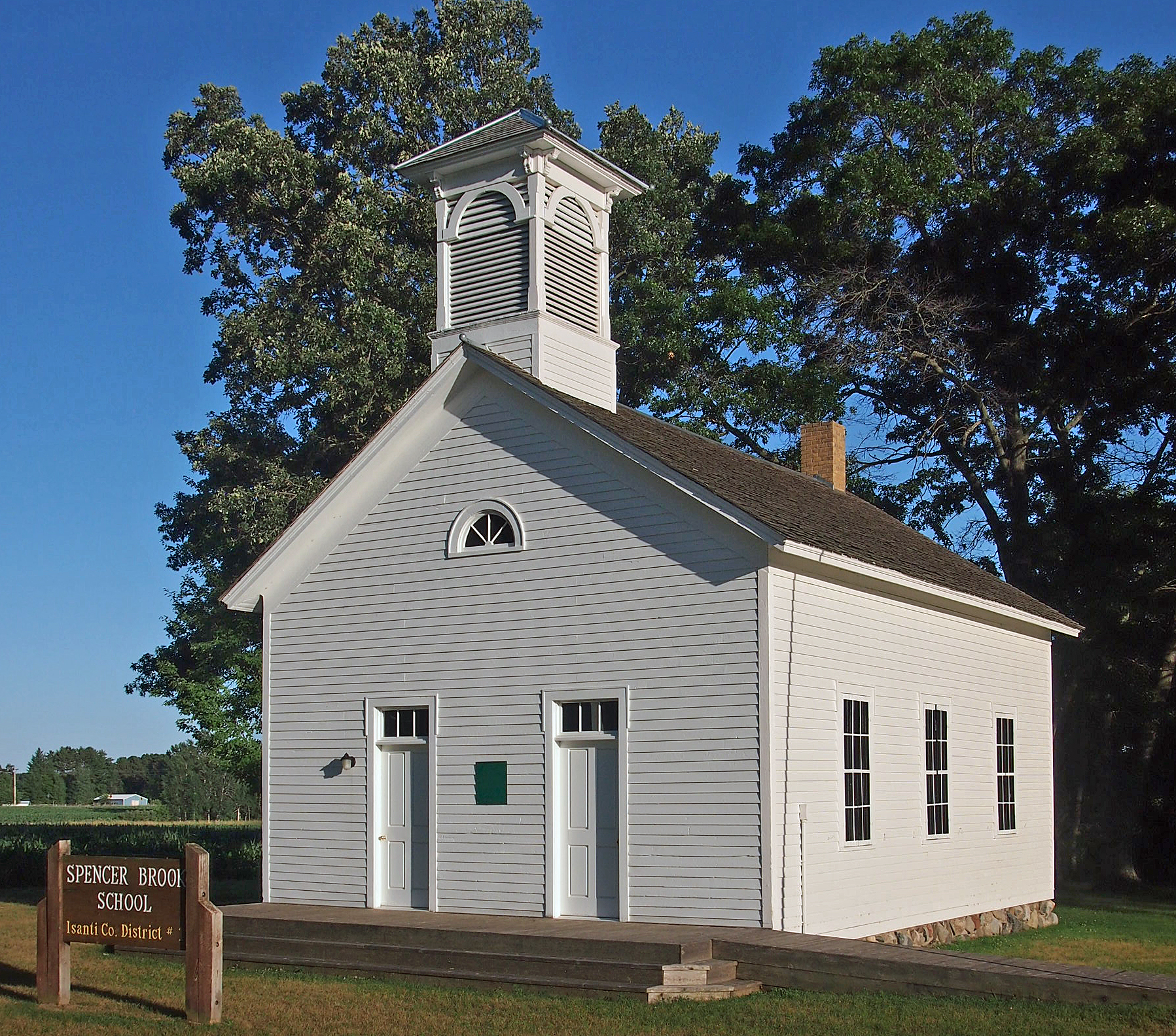 Spencer Brook School, Spencer Brook, Minnesota, USA. Viewed from the northwest.